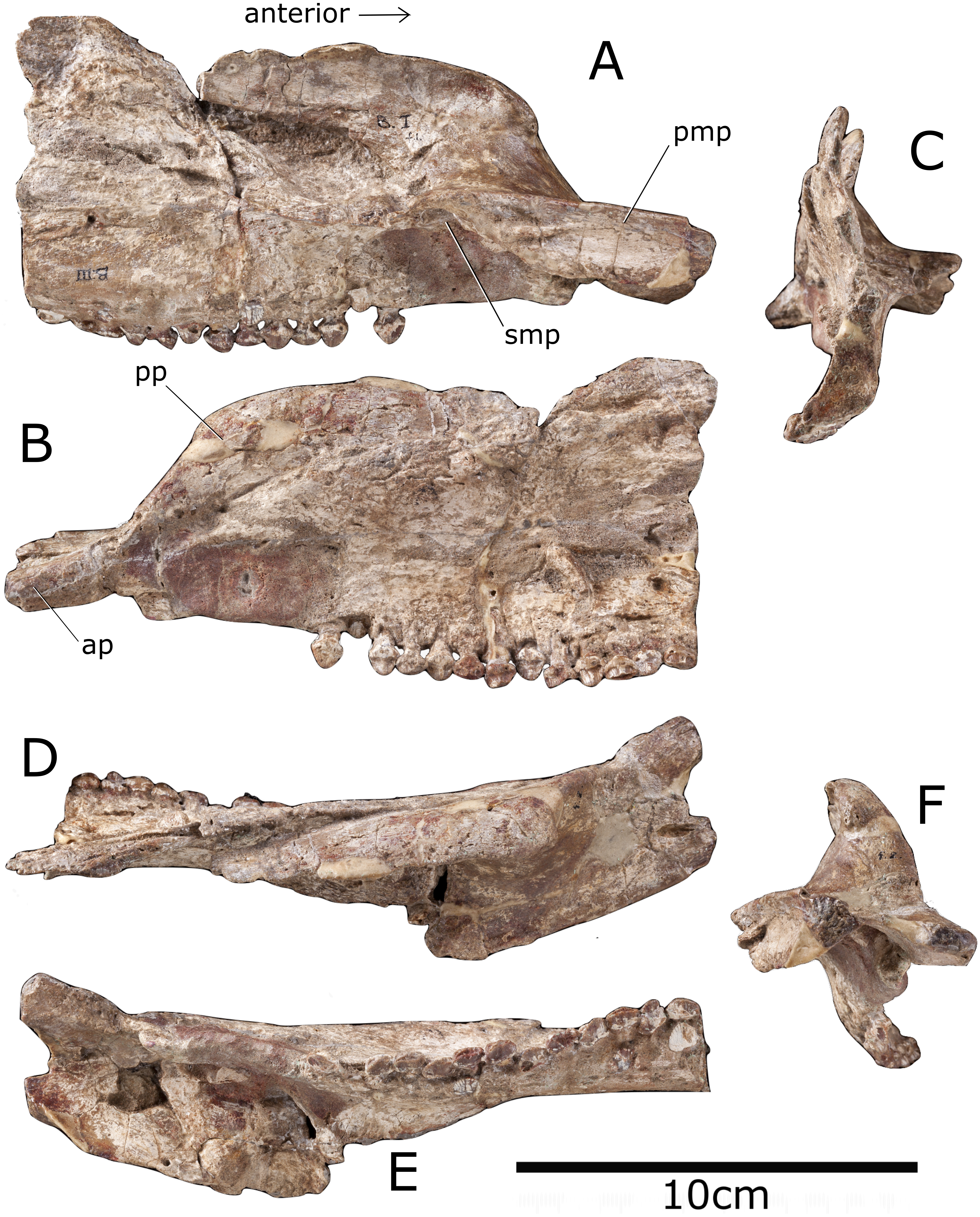 Figure 2: Premaxilla and maxilla of Paranthodon africanus NHMUK R47338. (A) Medial; (B) lateral; (C) posterior; (D) dorsal; (E) ventral; (F) anterior views. pmp, premaxillary process; smp, secondary maxillary process; pp, posterior process; ap, anterior process. Images copyright The Natural History Museum.